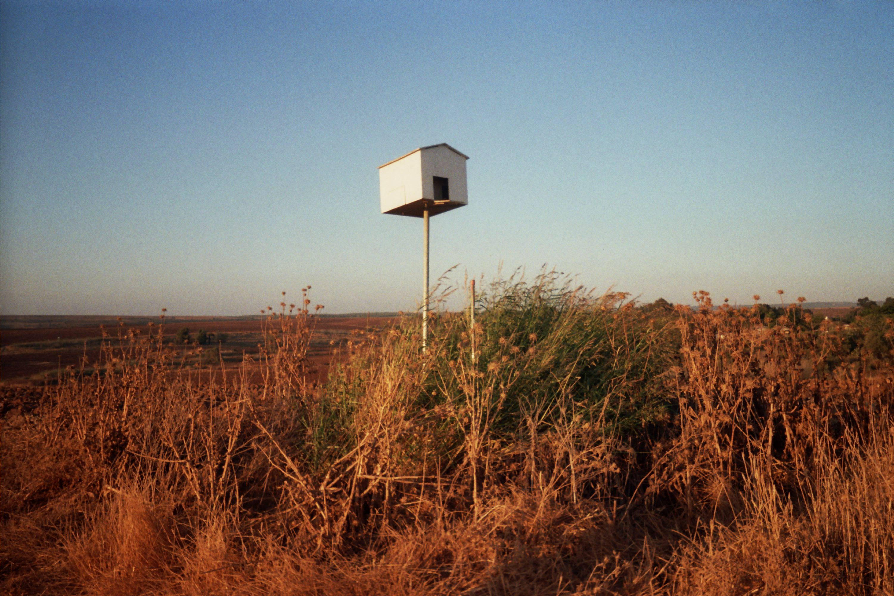 Owl House